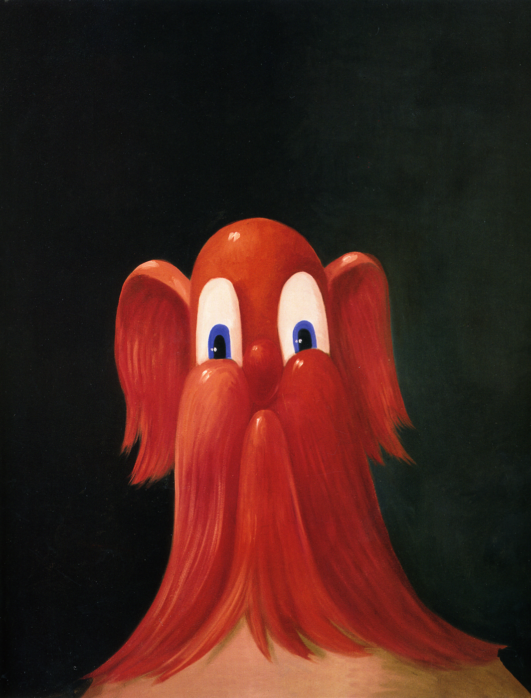 oli on canvas by George Condo